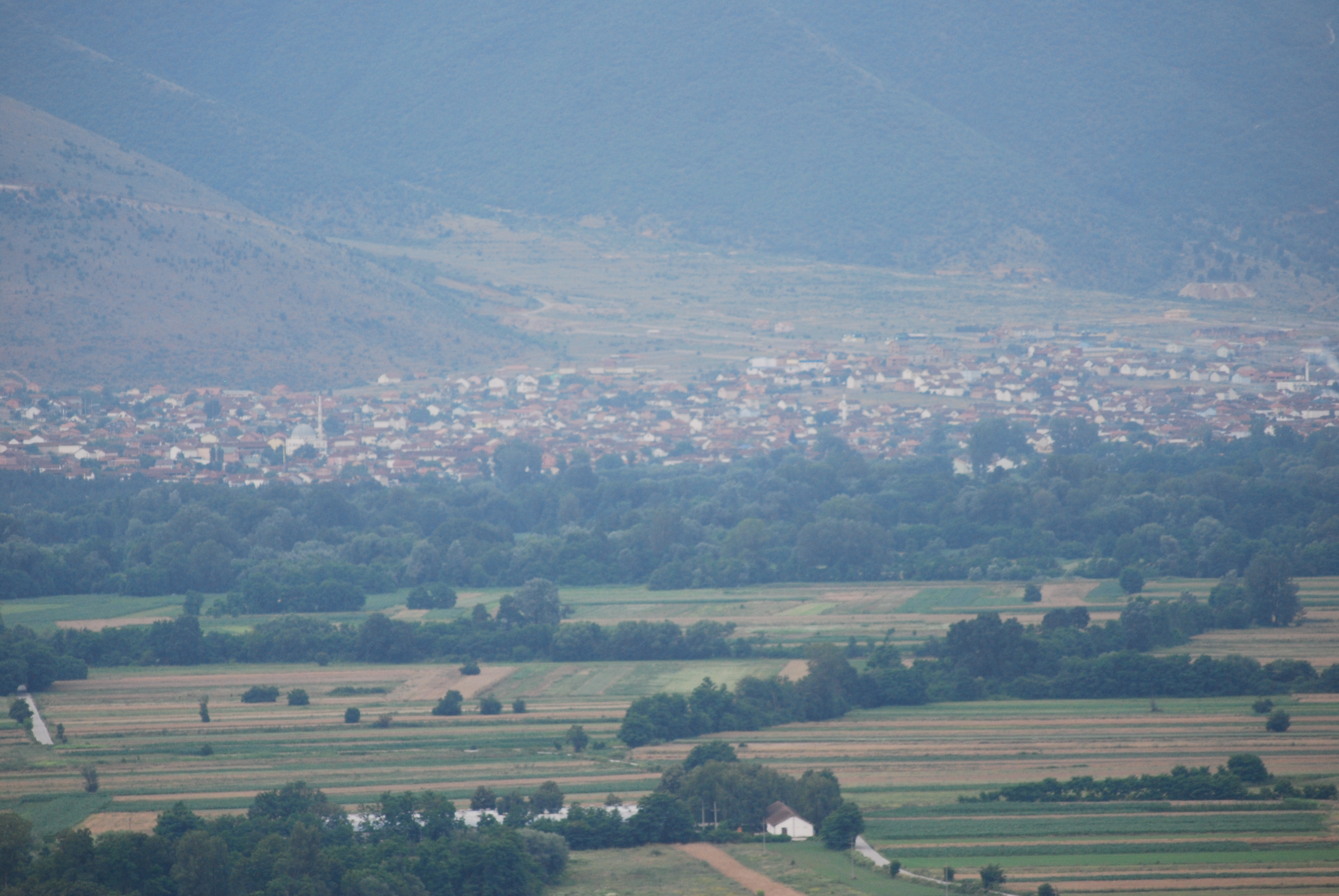 View on Senokos, Gostivar, Macedonia